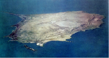 Xara-Zire mud volocano, Azerbaijan